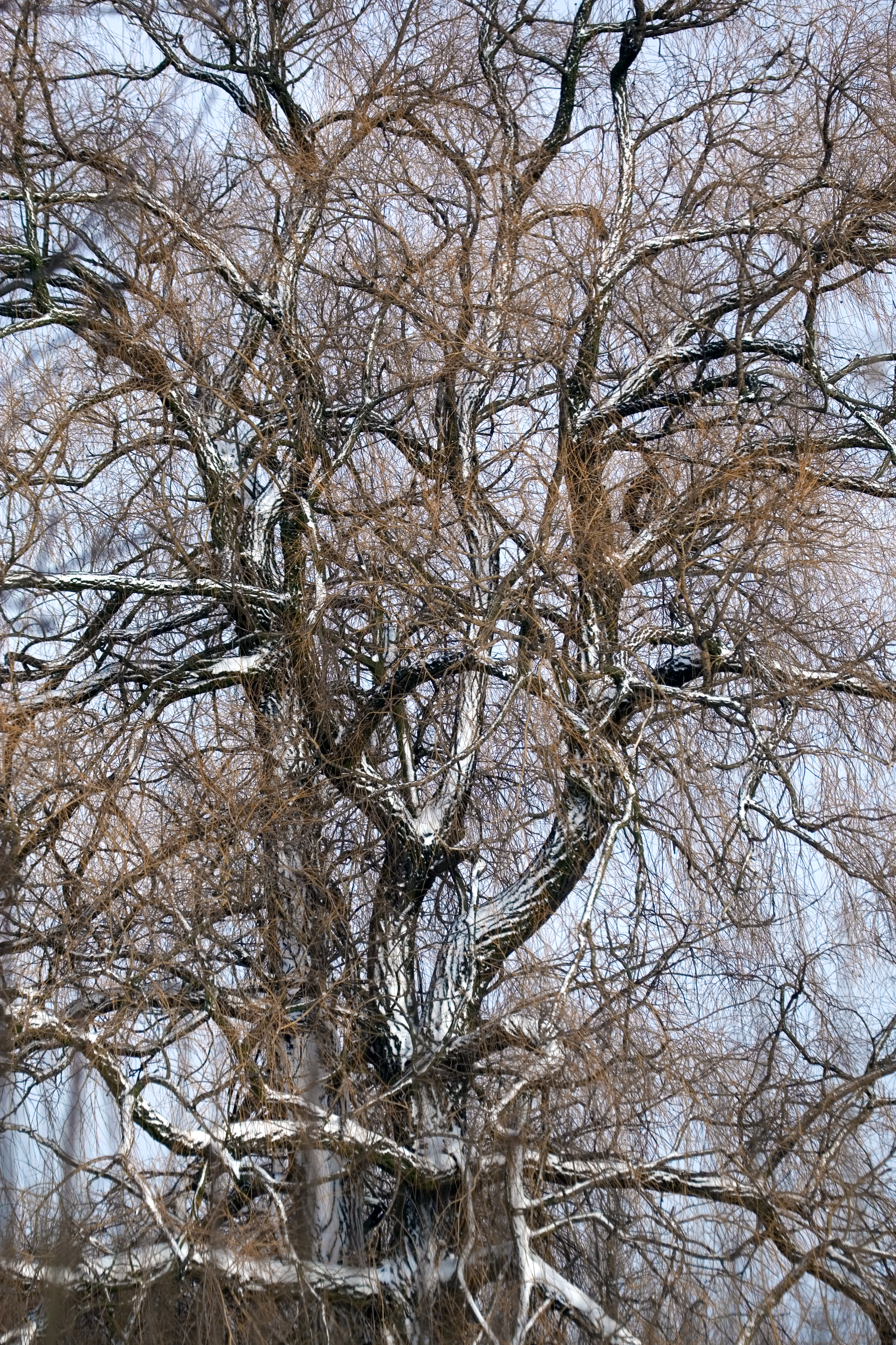 The crack willow, Lodz(Poland)